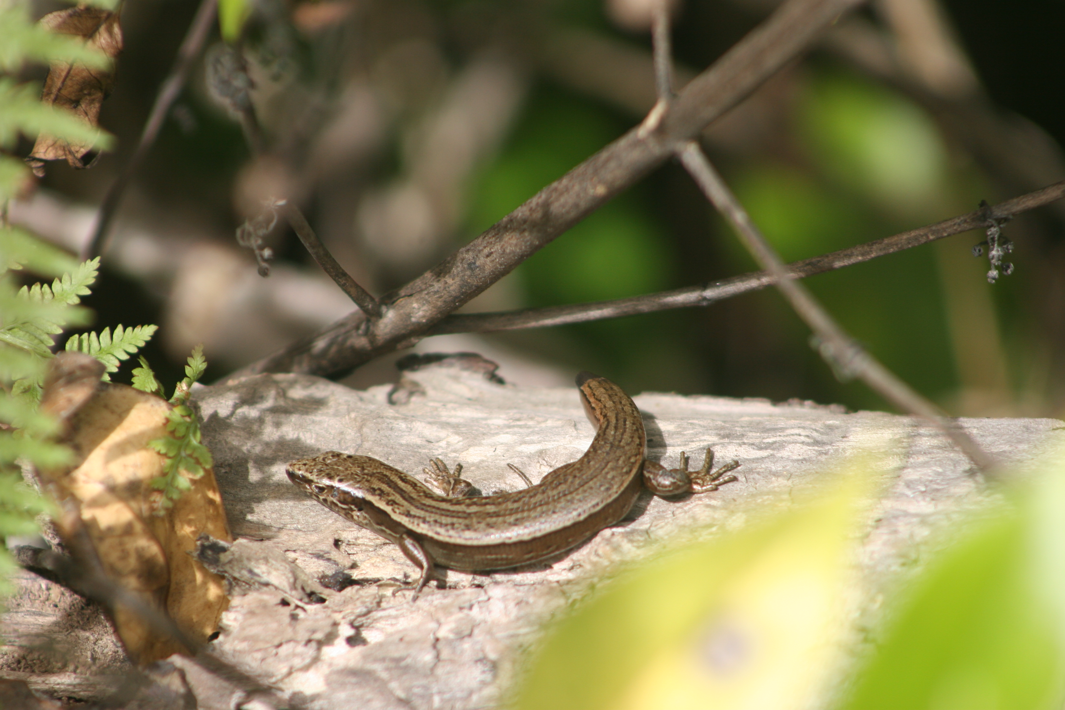 Brown Skink in Zealandia, Karori, Wellington, New Zealand.